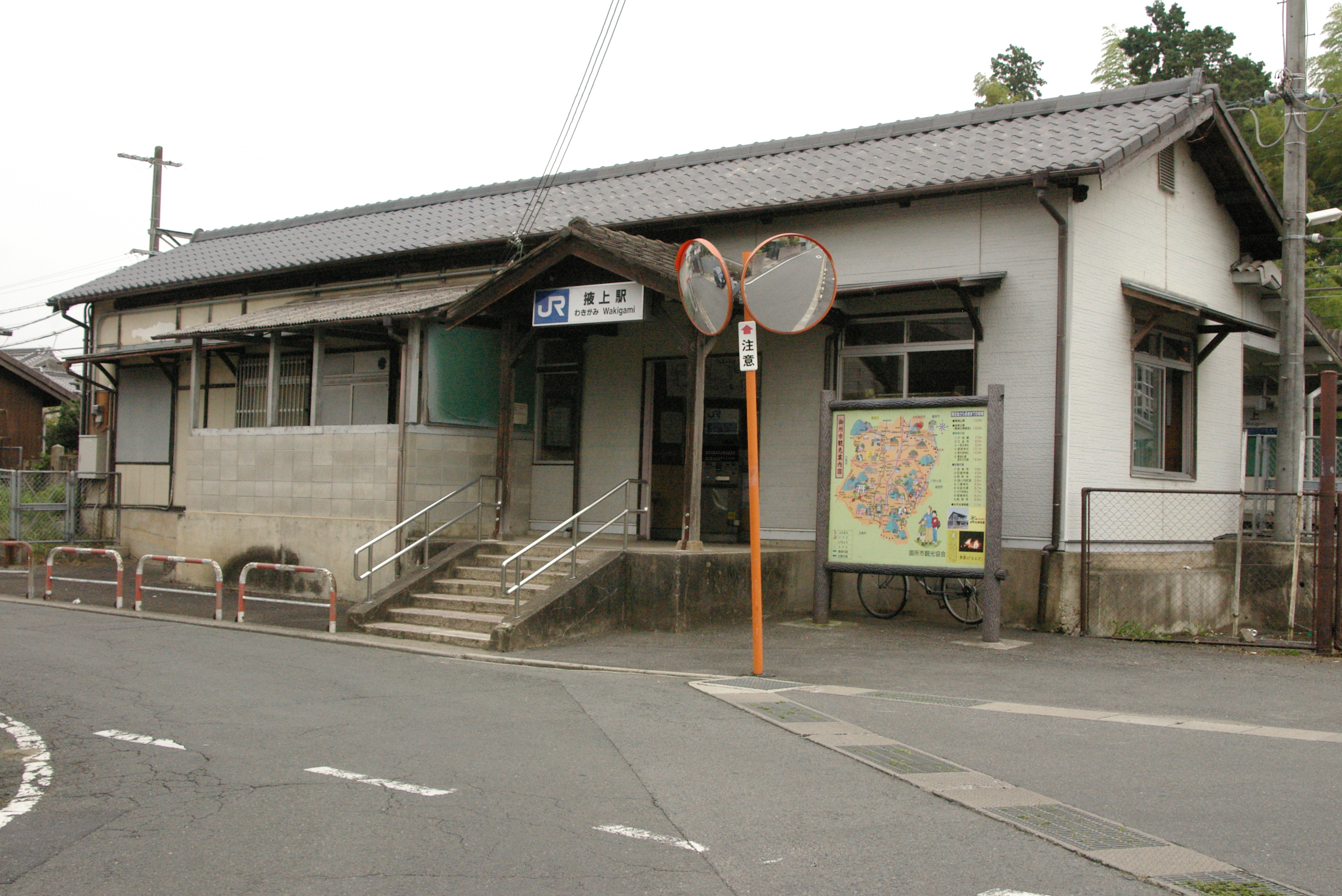 Uploaded by Shayuki in September 15,2008